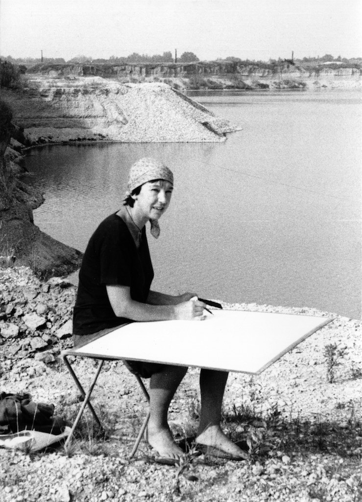 Christine Heuer